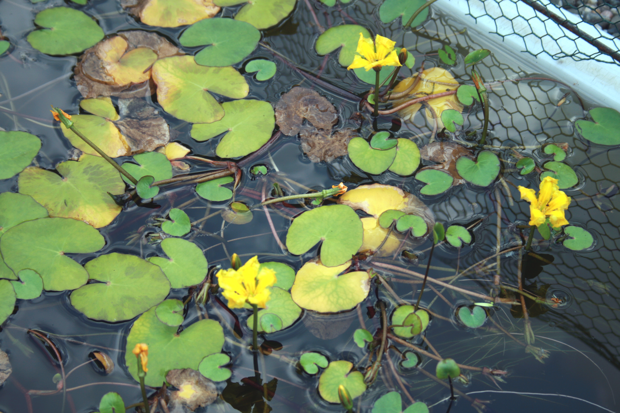 Nymphoides peltata from Botanical Garden of Charles University in Prague, Czech Republic